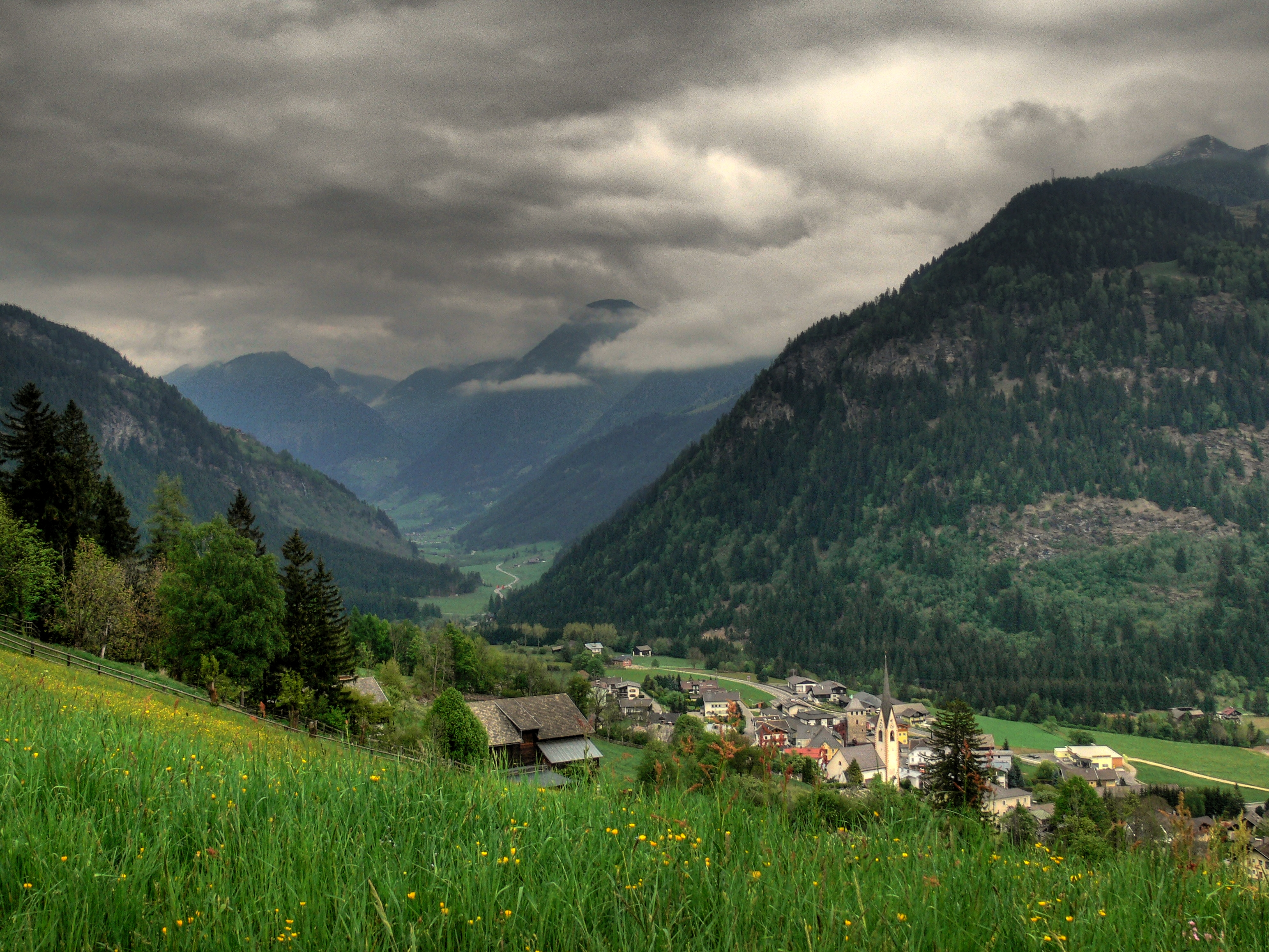 Another HDR for one of the Austrian vallys. It shows the village Winklern in the Mölltal, Carinthia